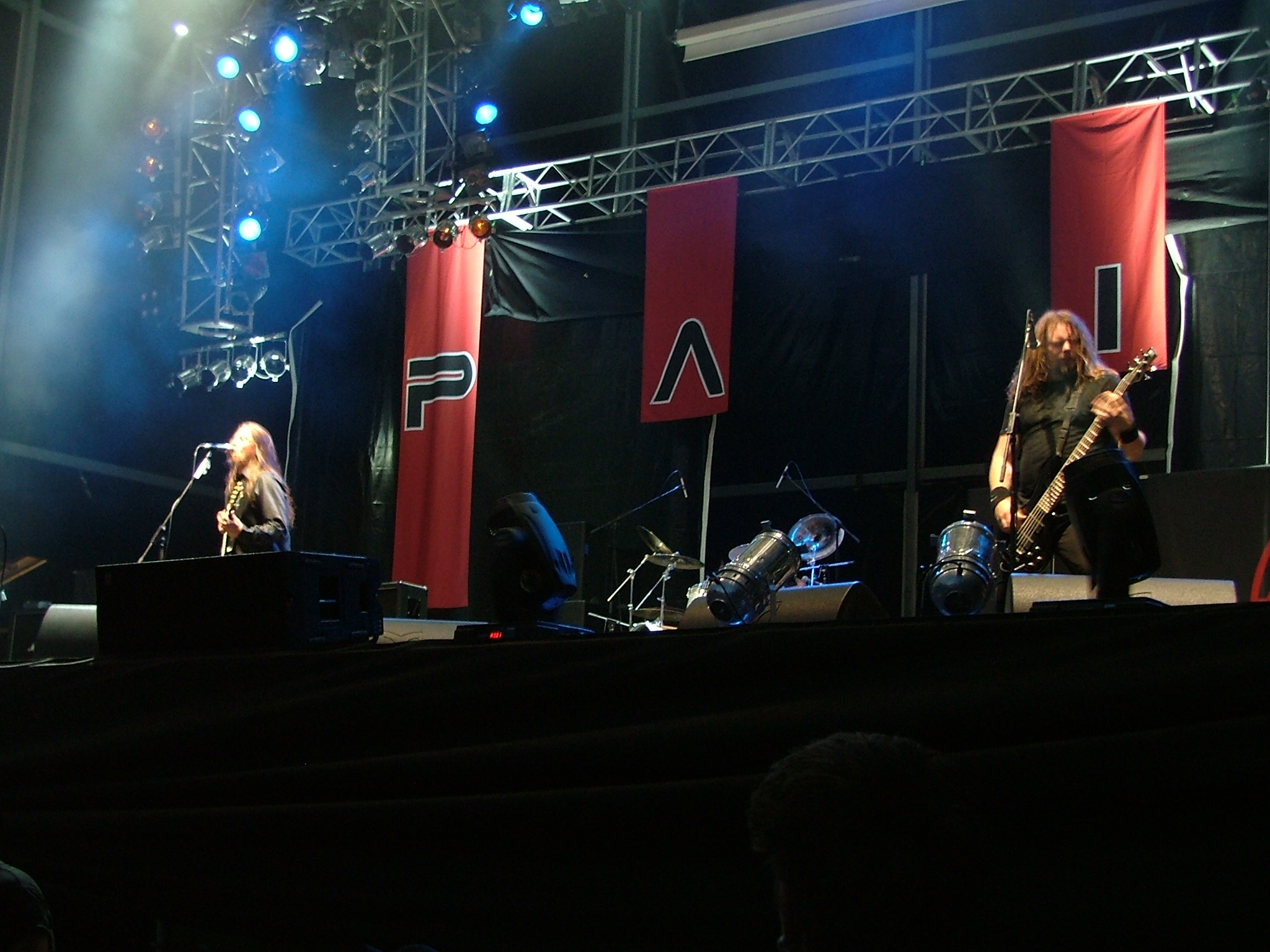 Swedish metal band Pain at the Metalcamp in Tolmin